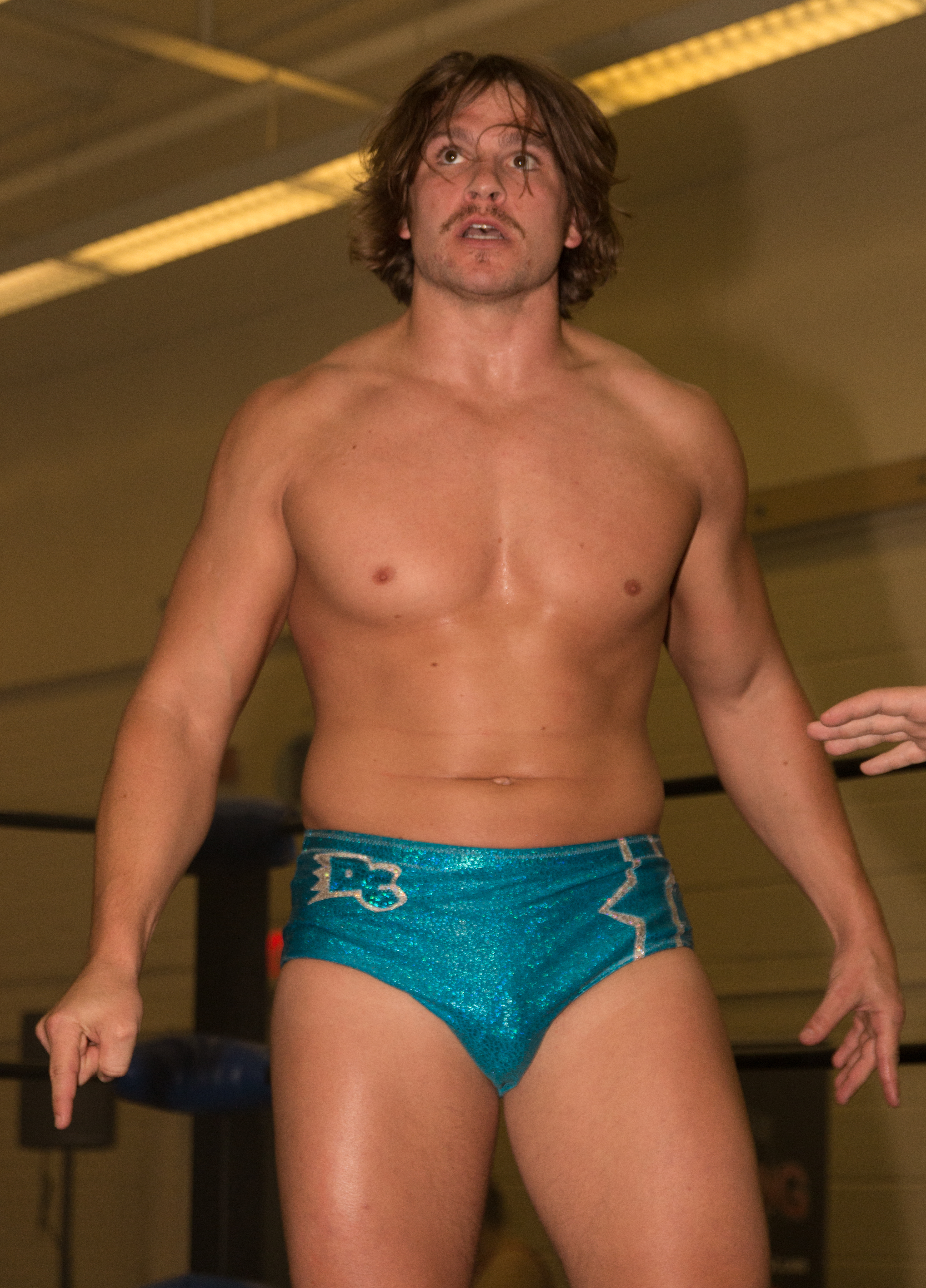 Wrestler Dalton Castle in the ring at a Smash Wrestling show in Etobicoke, ON